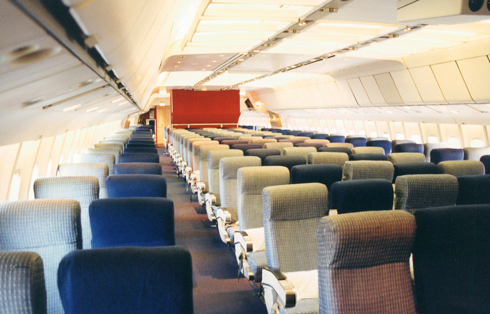 Economy on TWA consisted of two sections: the large one immediately aft of the second door, and a smaller section farther aft, after door 3. All five lavatories were located in a semicircular arrangement behind this smaller section. Lockheed engineers dubbed this 'cannery row'. The seats shown here were installed in late 1978, when most early DC-10s and L10s were converted from 2-4-2 to 2-5-2. These were retained until the very last TWA L1011 flight in 1997. This 1978 design originally featured a red seat cover as well, but by this time it had been removed in favor of just business-like blue and grey. By the standards of the 90s, when thin-backed slimline seats were becoming popular with most airlines, these seats were quite cushy, with decent padding. The center seatback folded down to form a table, another throwback to an earlier (and more comfortable) era. TWA did not retrofit their L1011 cabins with larger overhead bins, as Delta did in the early 90s. This was a mixed blessing: the cabin looked more spacious with this original blended design, but the bins themselves were small and items tended to shift in flight, then fall out when passengers opened the bins.